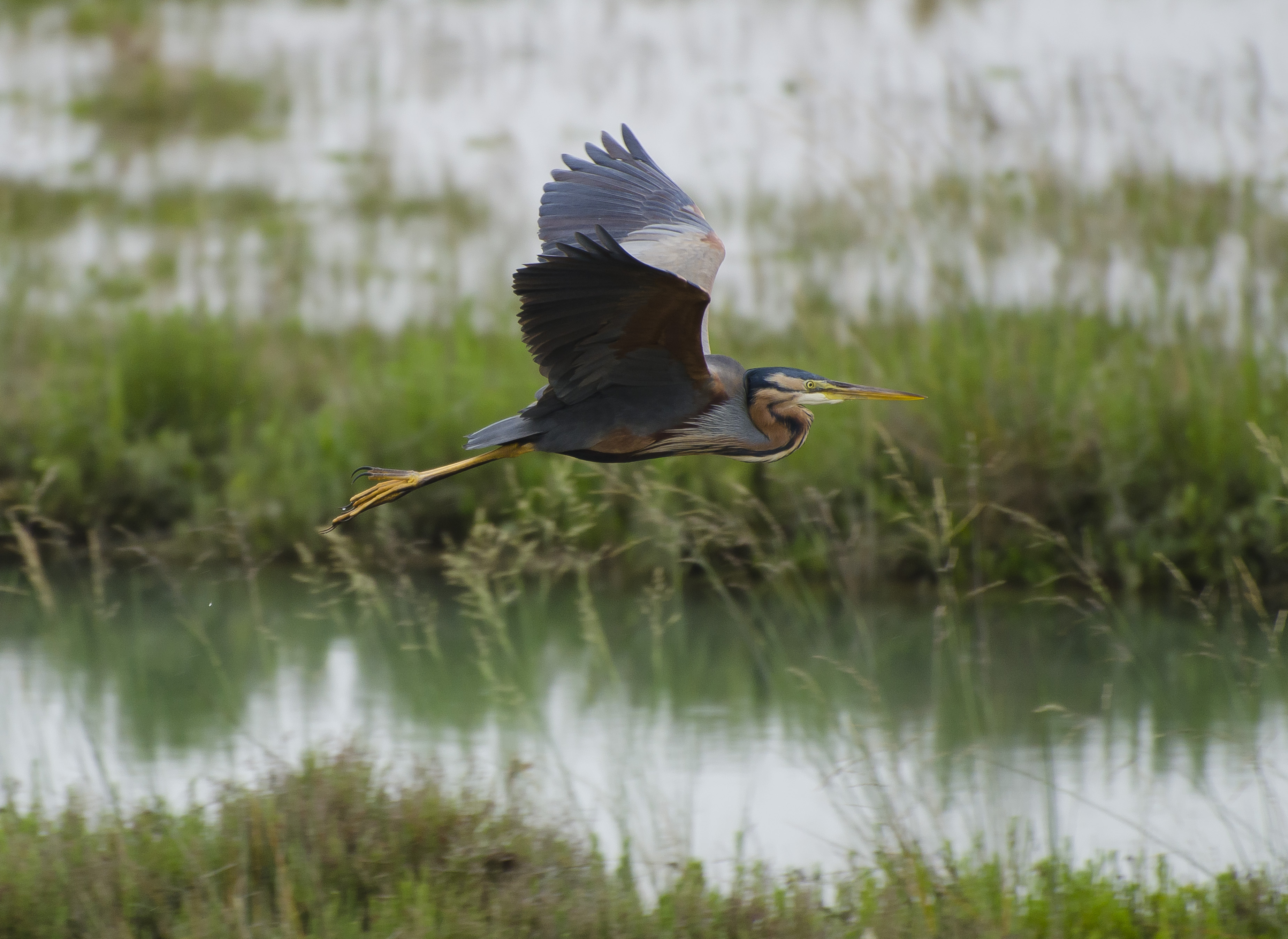 Purple heron, Venetian Lagoon, Italy.